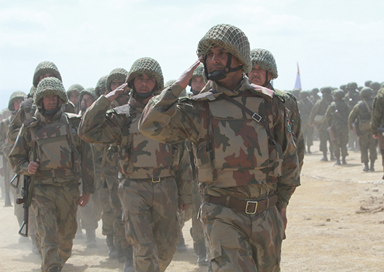 Военнослужащие 201-й российской военной базы и Вооруженных сил Таджикистана примут участие в совместном КШУ